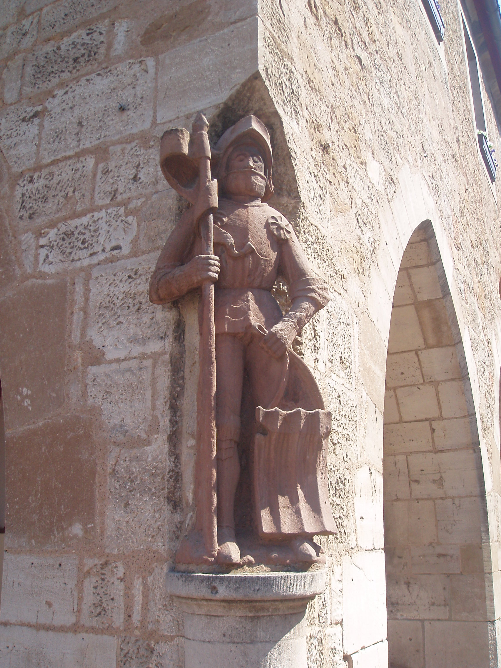 Roeland Korbach